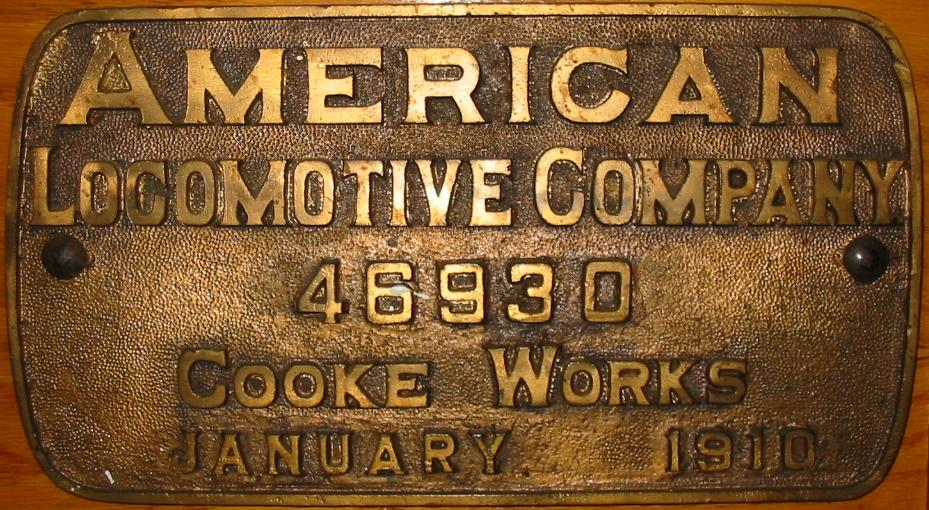 ALCO-Cooke builder's plate on display at the Mid Continent Railway Museum, North Freedom, WI Photo by Sean Lamb (Slambo) October 10 2004